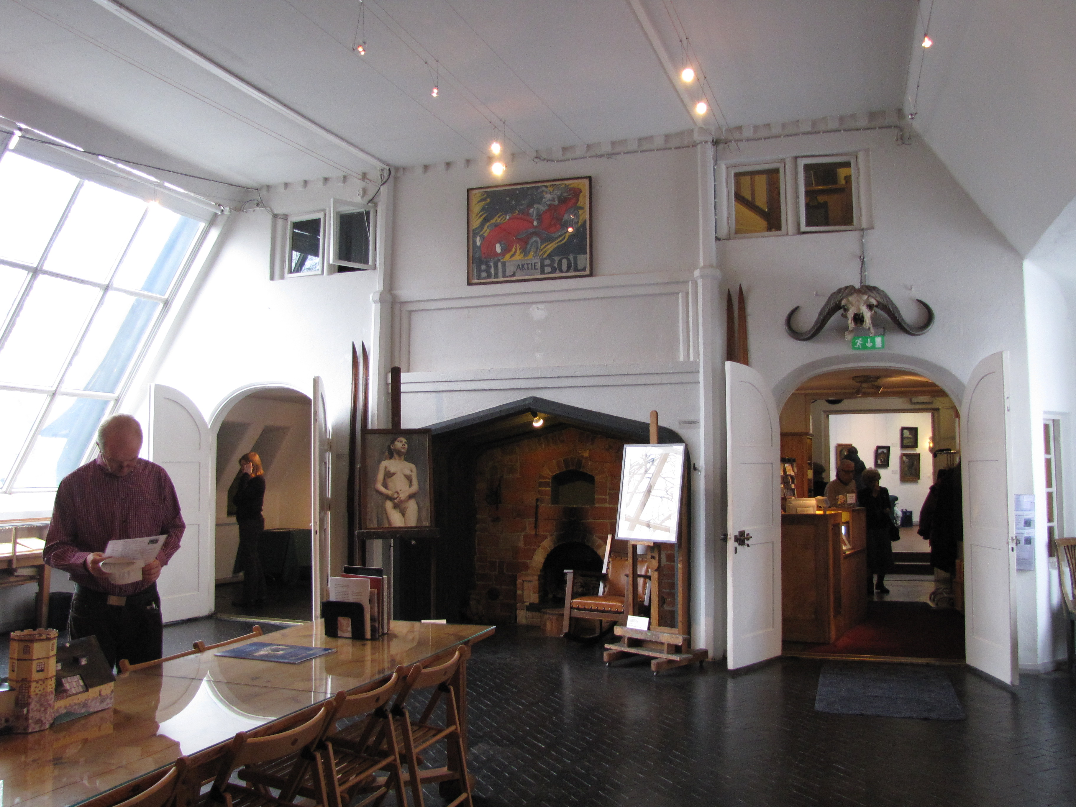 Tarvaspää Gallen-Kallela museum in Espoo, interior view of the atelier. Photographed during the "All or Nothing – The Young Axel Gallén!" exhibition.